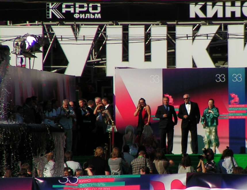 Nikita Mikhalkov (the second fron right). Opening Ceremony of Moscow International Film Festival-2011